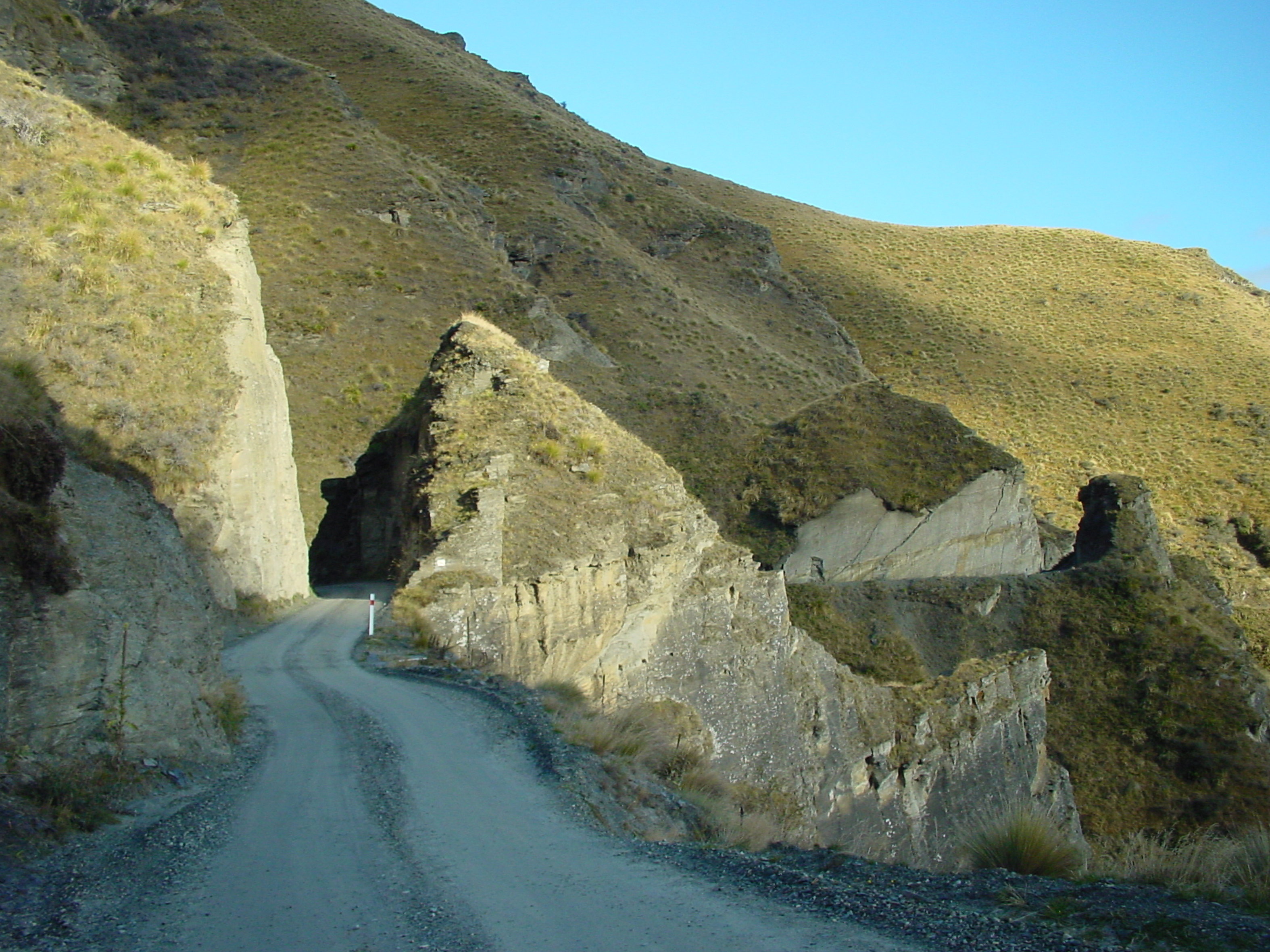 Skippers Road was created to enable the gold miners to bring in heavy machinery. The road had to be built through rock. Hells Gate in the front and Heavens Gate in the back were created while building Skippers Road.